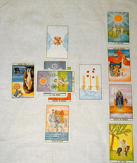 Celtic Cross tarot spread